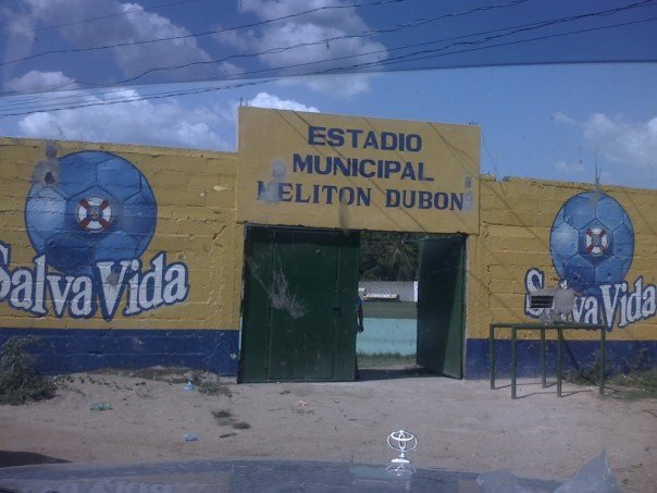 Taken with a Z3 Camera Phone